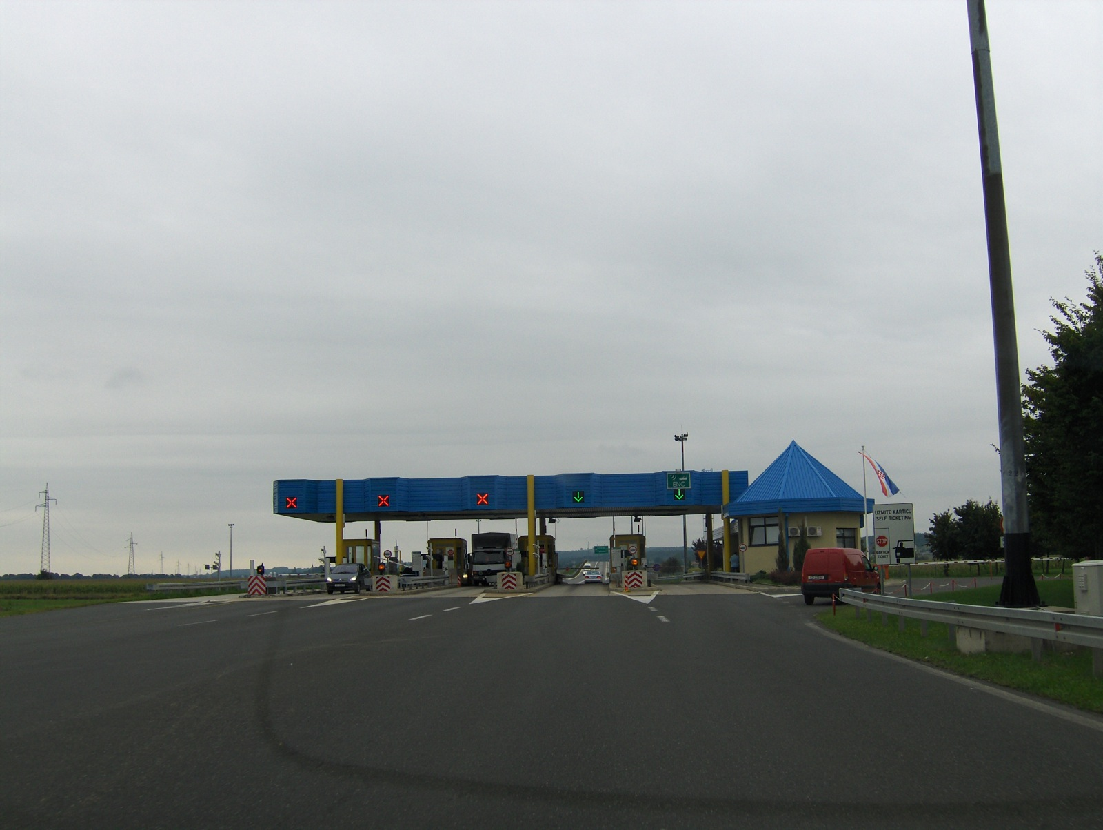 Varaždin junction tollbooth